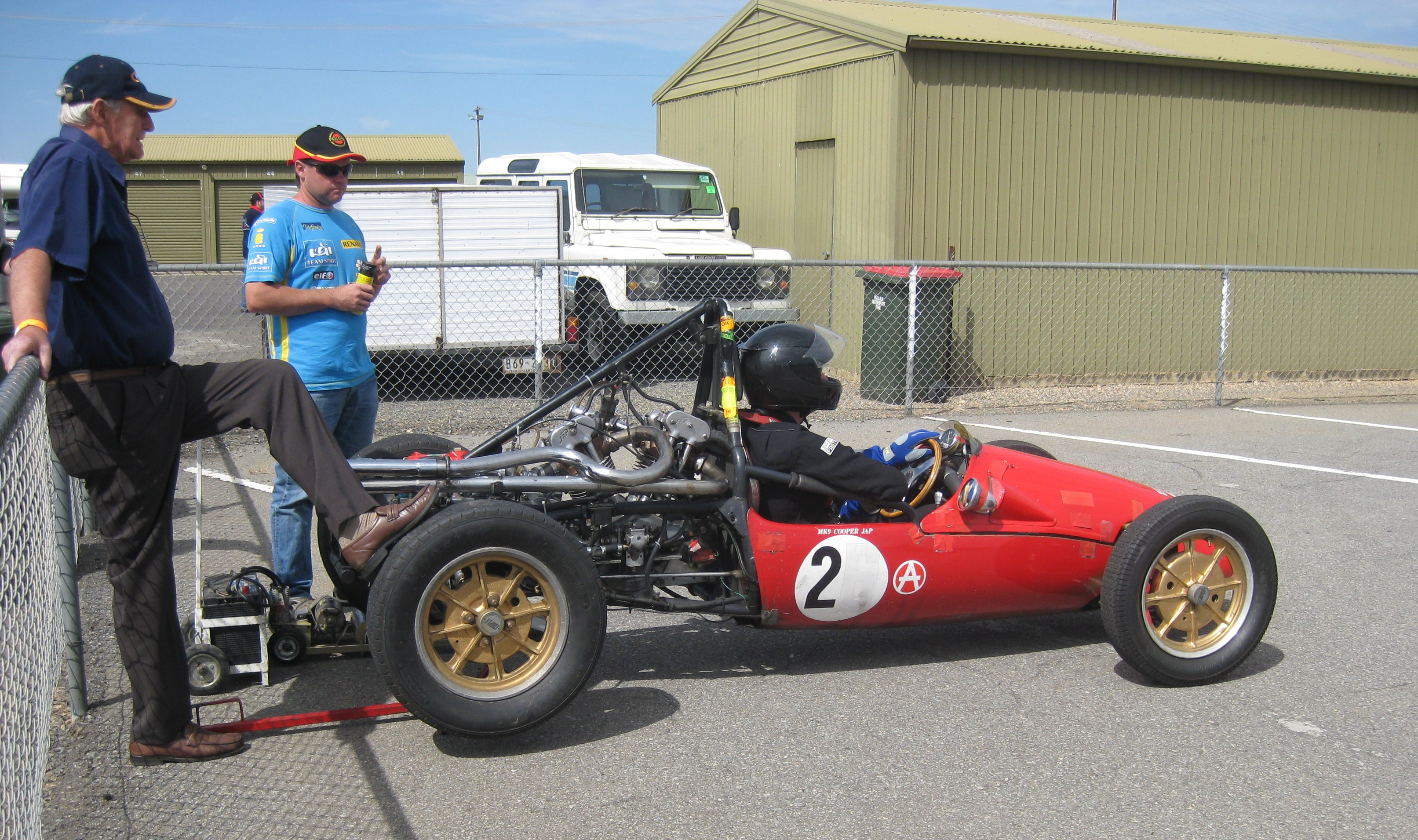 Cooper Mk9 JAP 1100cc racing car of 1956, as driven by Brian Simpson at the Historics race meeting at Mallala Motor Sport Park in South Australia on 3 April 2010.